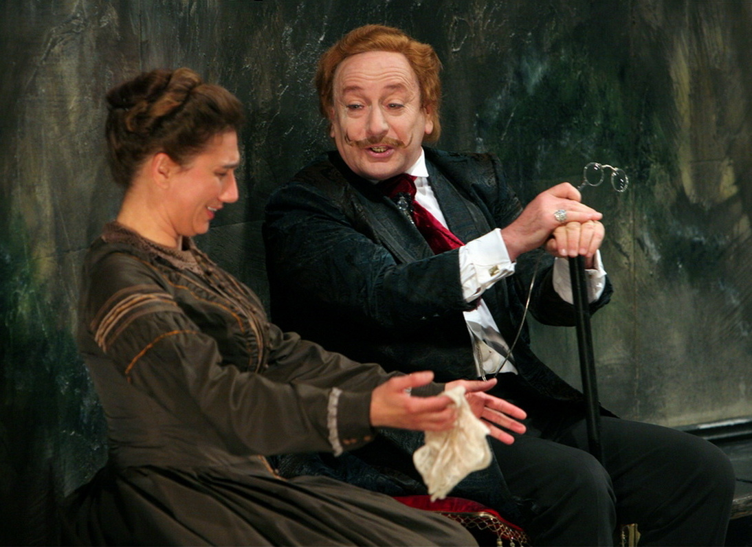 "Uncle's Dream" by Fyodor Dostoevsky, directed by Egon Savin; Drama of SNT, Novi Sad, 2006/07; Gordana Đurđević Dimić, Predrag Ejdus Srpski (latinica): "Ujkin san" Fjodora Dostojevskog u režiji Egona Savina, Drama SNP-a, Novi Sad, 2006/07; Gordana Đurđević Dimić, Predrag Ejdus Српски (ћирилица): "Ујкин сан" Фјодора Достојевског у режији Егона Савина, Драма СНП-а, Нови Сад, 2006/07; Гордана Ђурђевић Димић, Предраг Ејдус